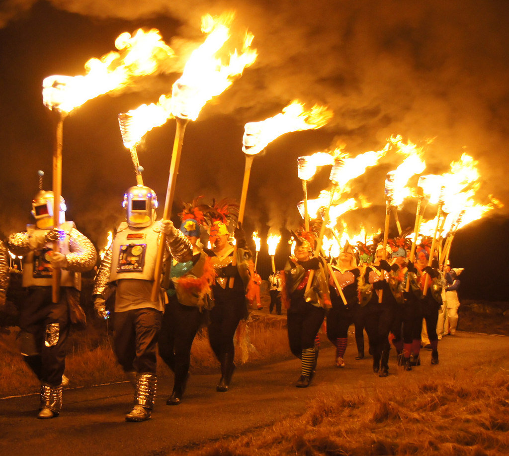 Guisers in the procession at Uyeasound Up Helly Aa